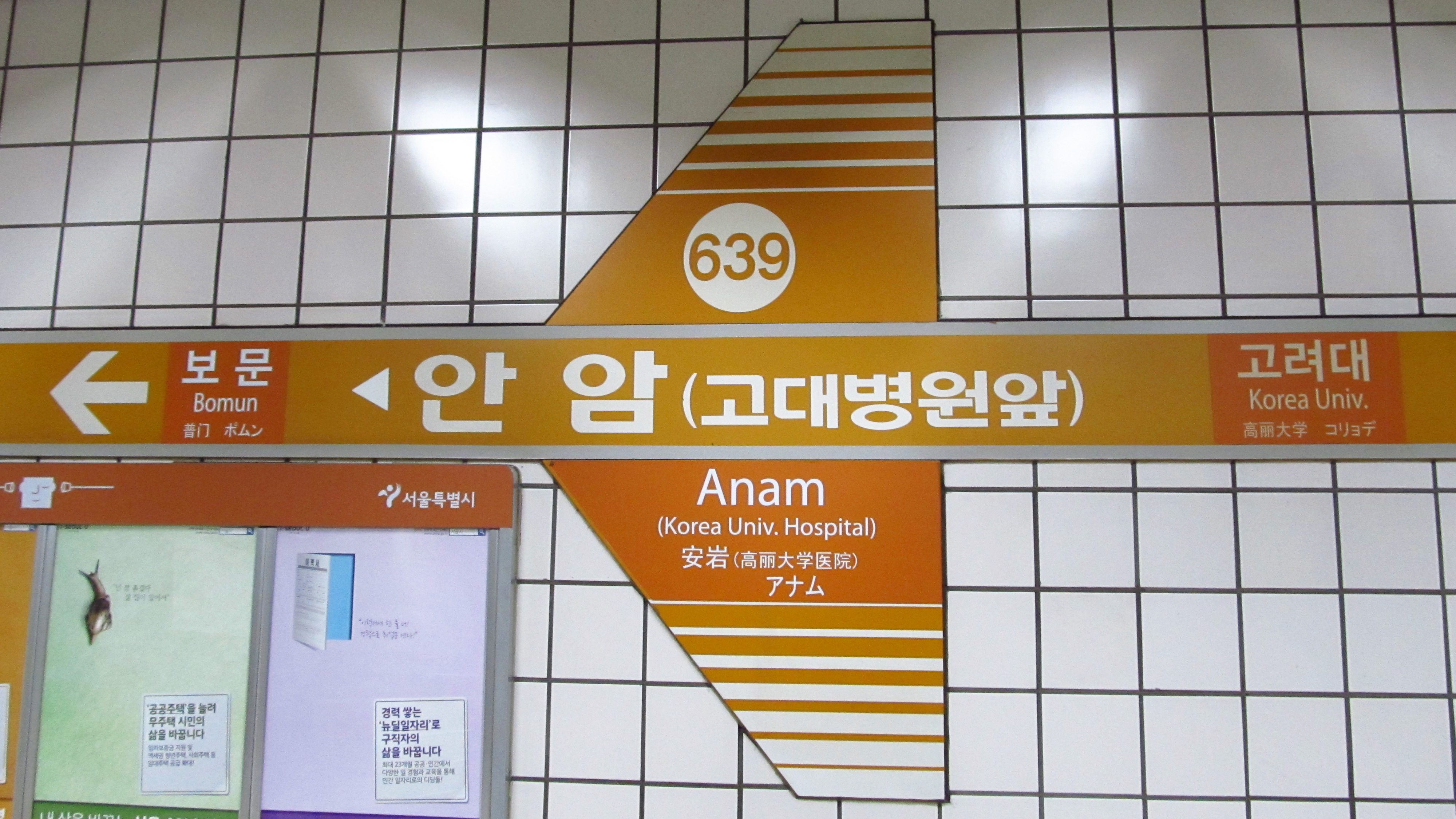 A sign of Anam Station on Seoul Subway Line 6